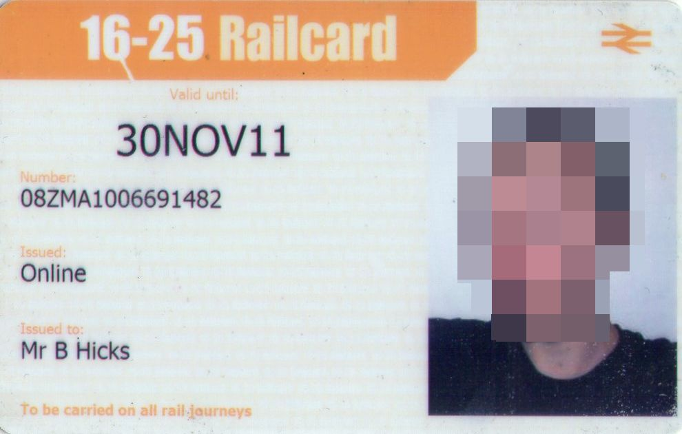 A British 16-25 railcard issued in November 2008, valid for three years. When bought at a ticket office the information on the card is split into two, one card showing the expiry date and the other showing the photograph. The picture here has been obscured.